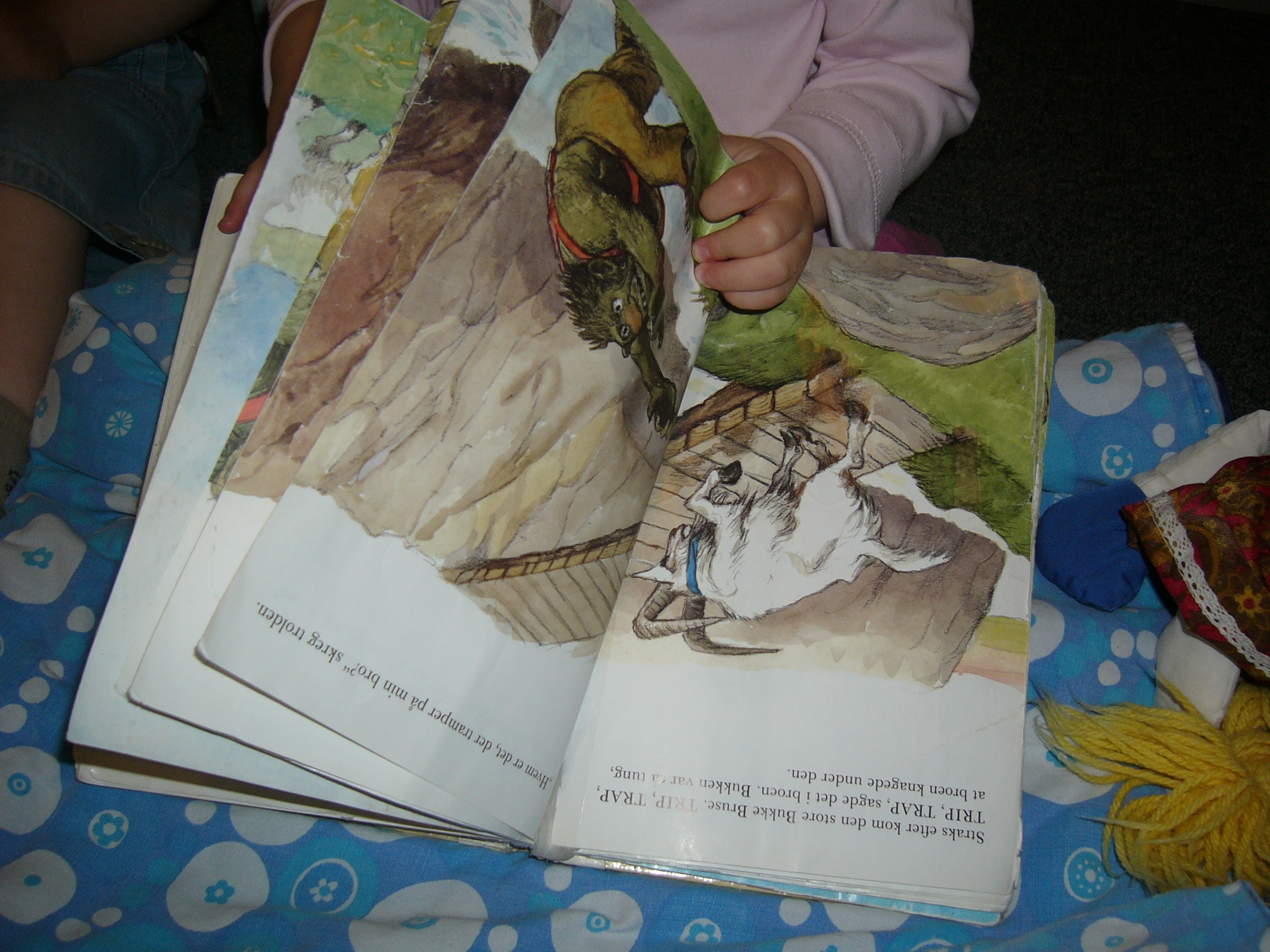 Two-year old child "reading" a picture book: Three Billy Goats Gruff. Denmark. Photographer: Brams.